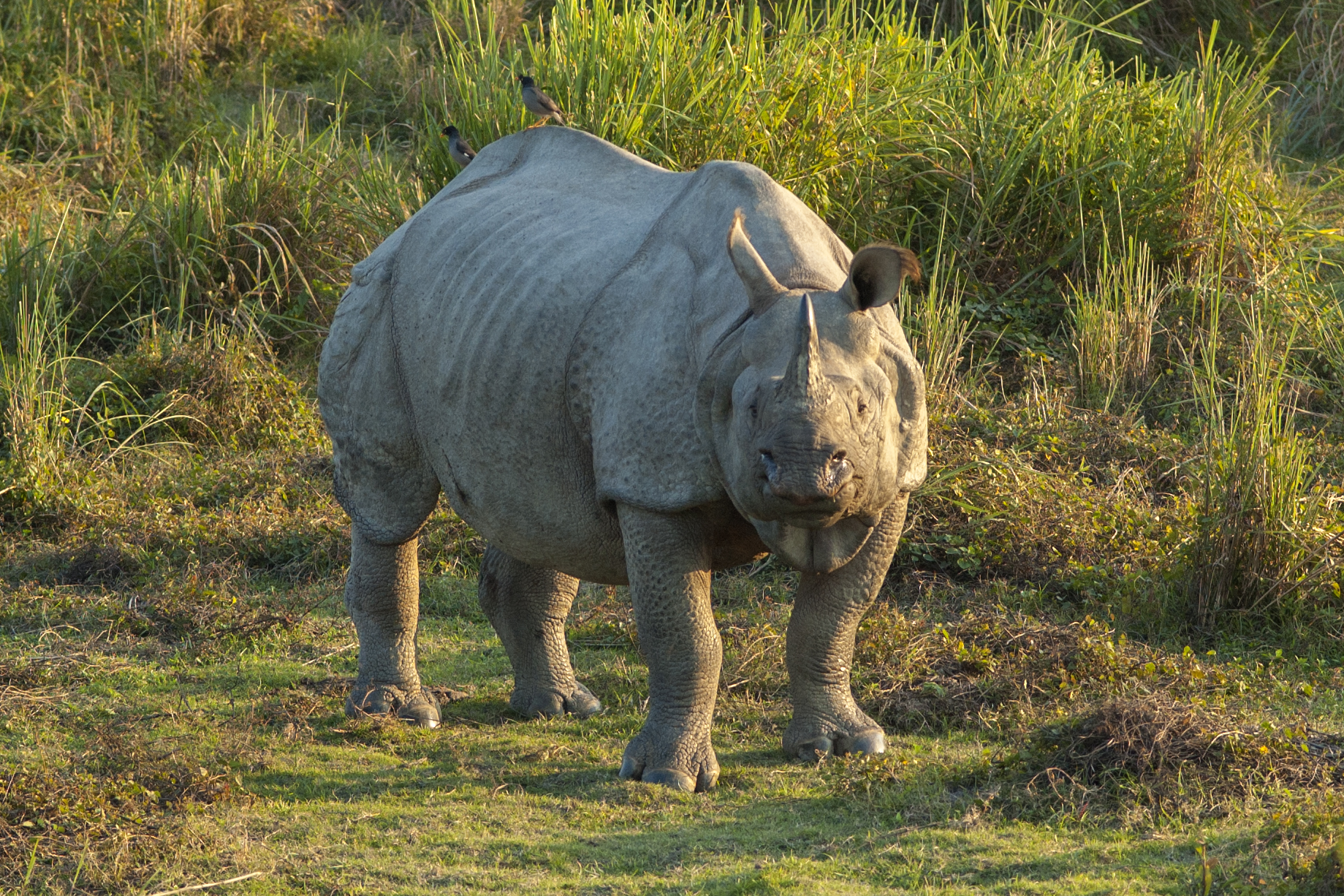 Wild Indian rhinoceros in Kaziranga National Park